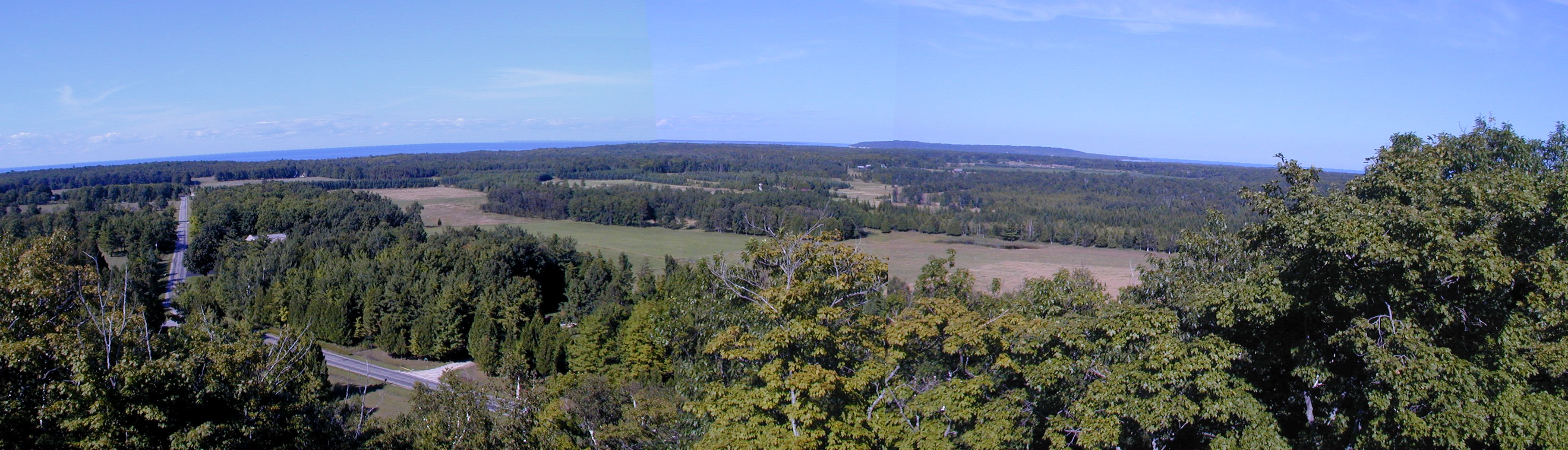 View from lookout from north through east. Lookout is on a hill close to the center of the island.